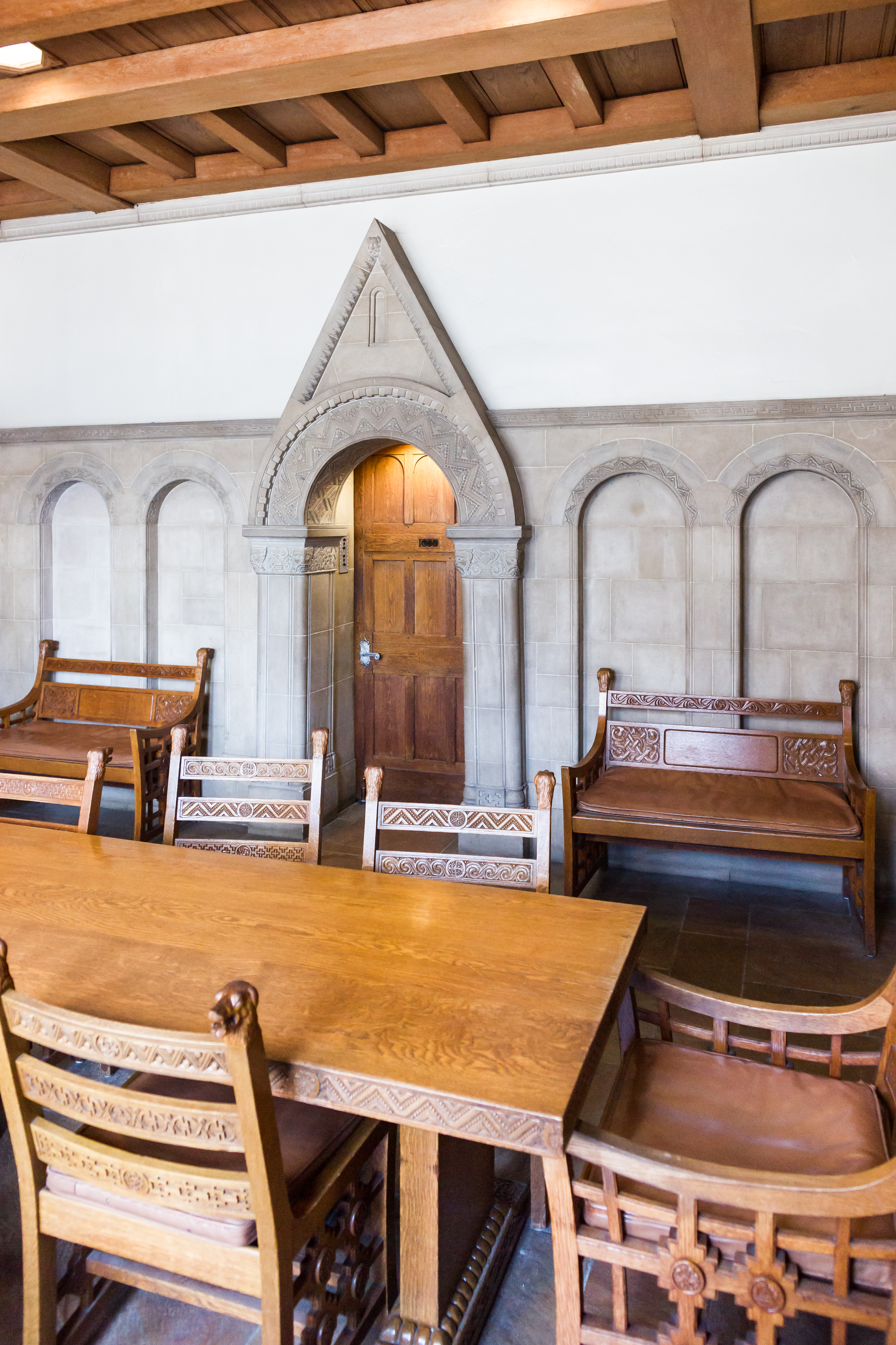 Irish Nationality Room in the Cathedral of Learning at the University of Pittsburgh